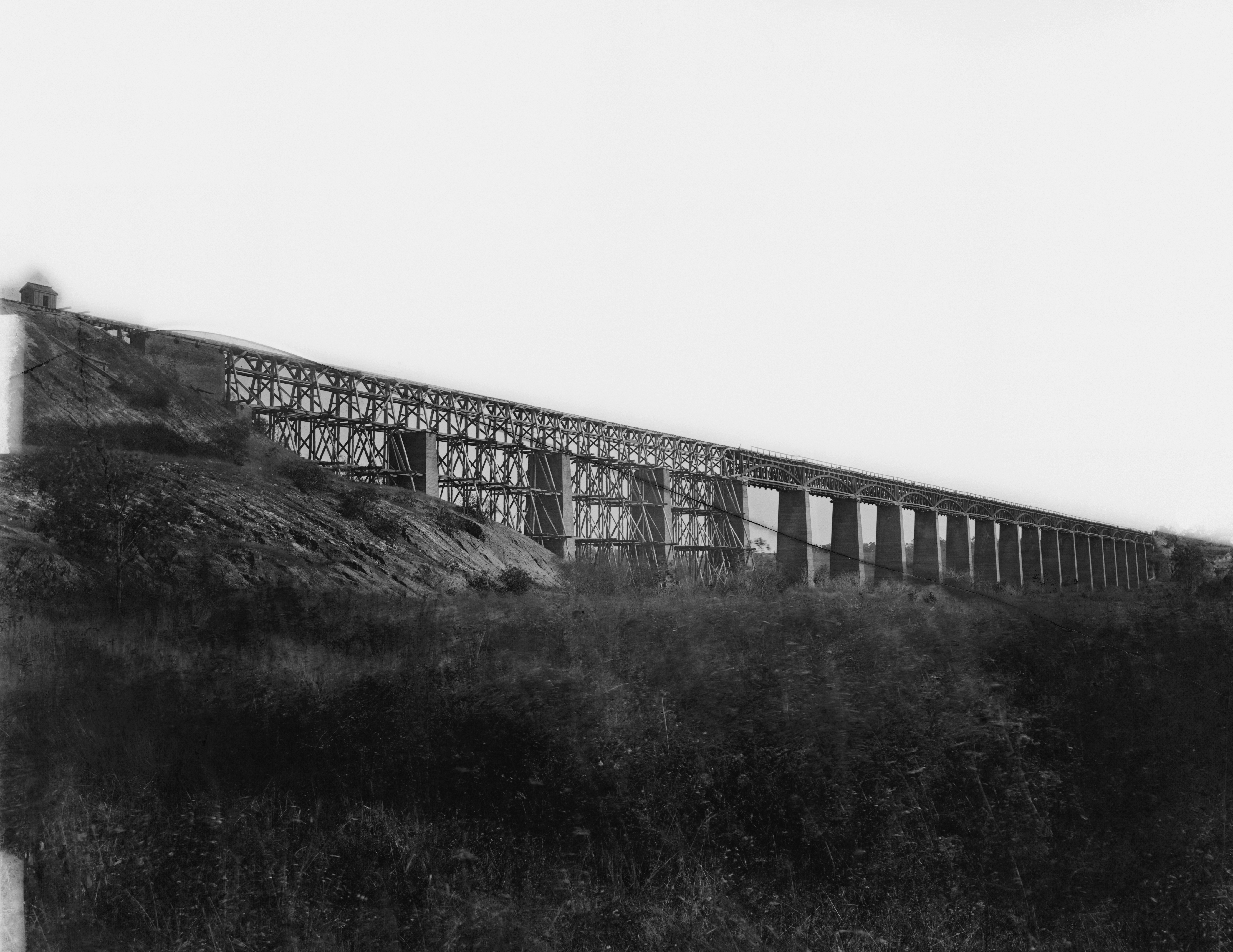 Farmville, Virginia (vicinity). High bridge of the South Side Railroad across the Appomattox. NOTE: Title from Civil War caption books. Caption from negative sleeve: High Bridge across Appomattox River, south side railroad. Farmvill, Va., (vicinity) April 1865. Forms part of Civil War glass negative collection of the Library of Congress. No known restrictions on publication.